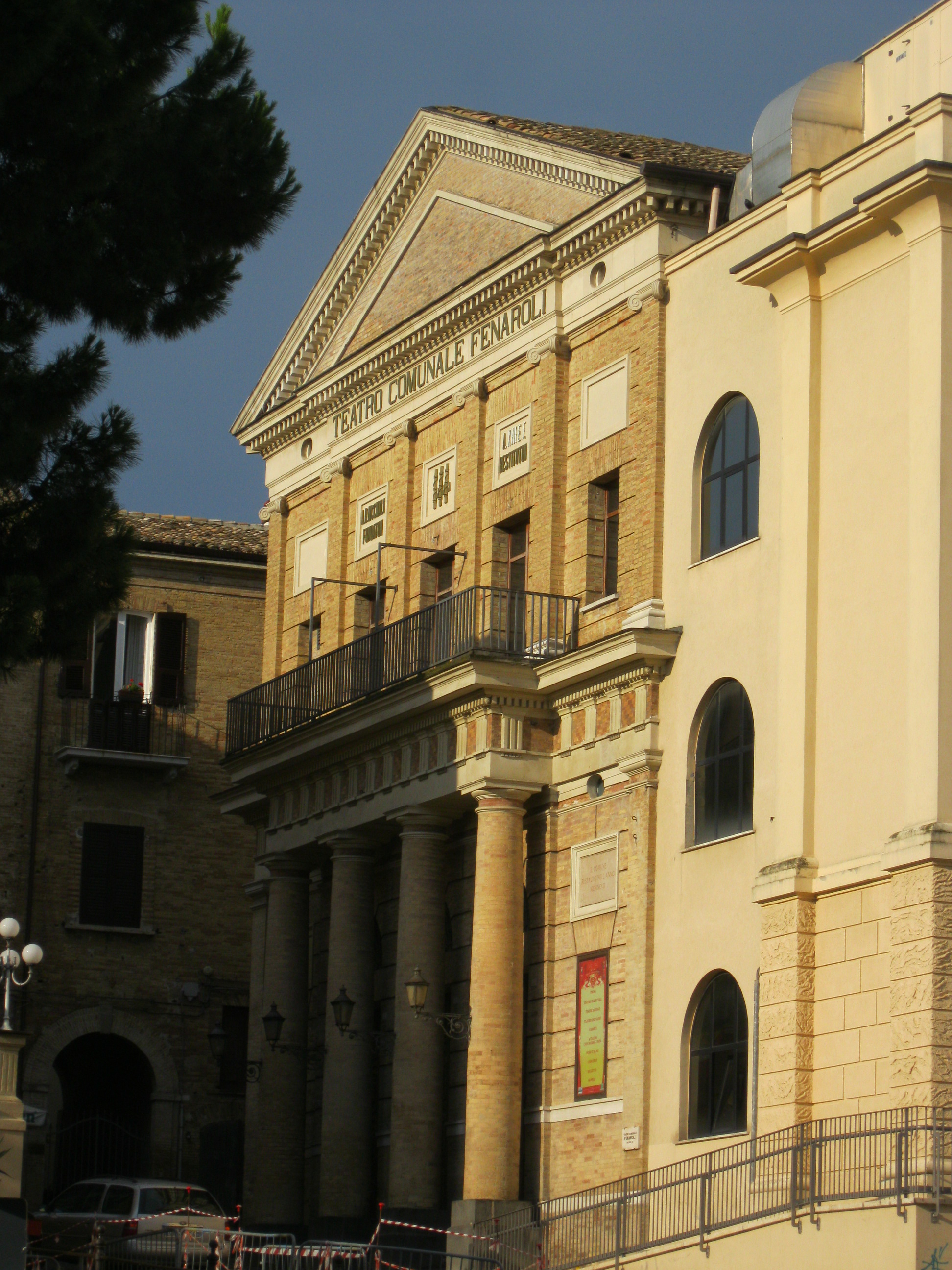 Teatro Fenaroli Lanciano Italy